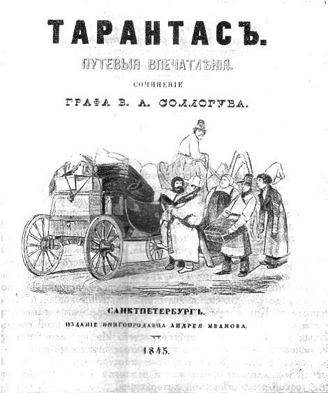 Front page of a 1843 russian edition of "Tarantas" by Vladimir Sollogub (1813-1882).